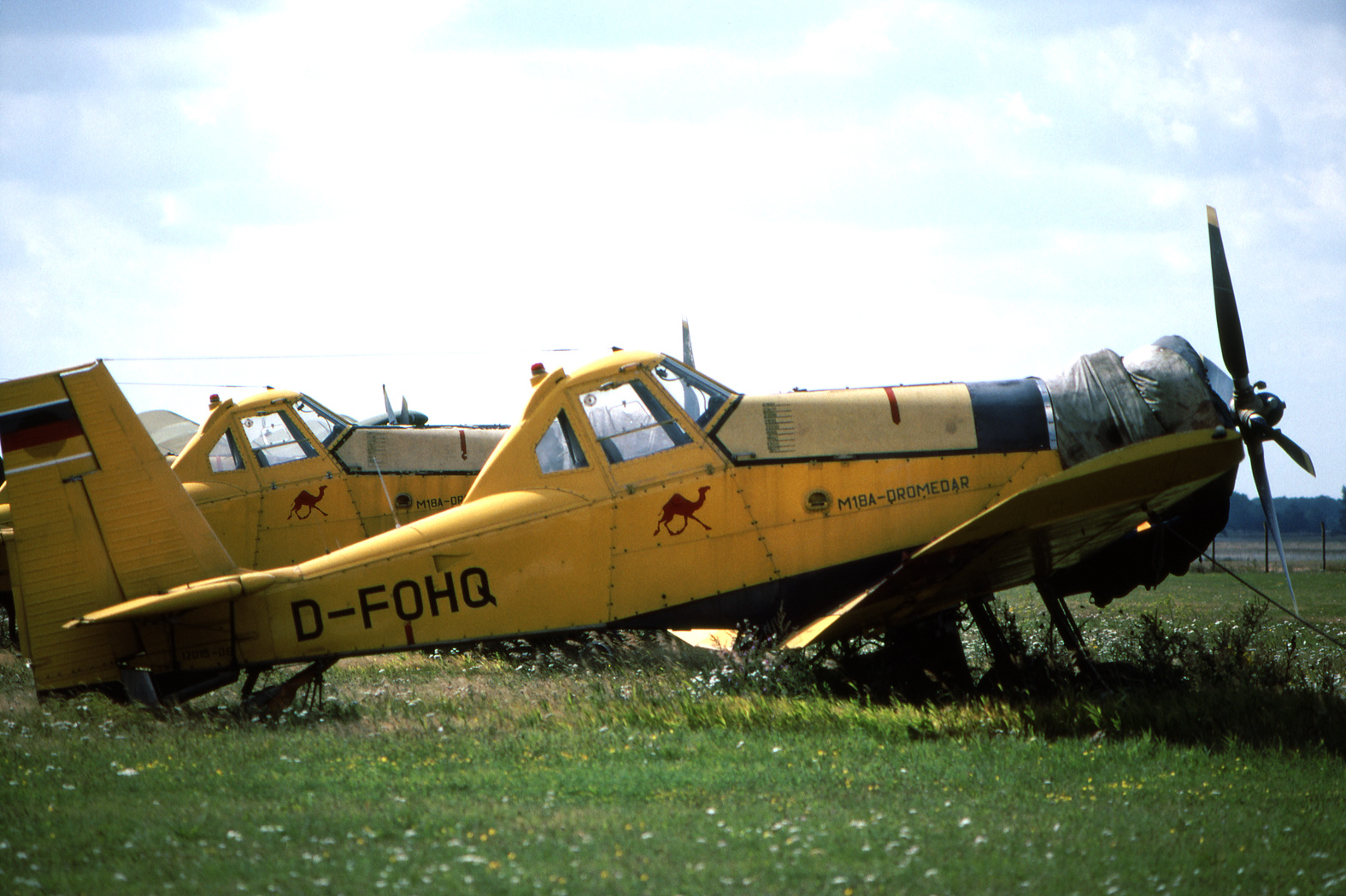 Airfield Anklam, discarded PZL M-18A dromedary; Anklam, Mecklenburg-Western Pomerania, Germany